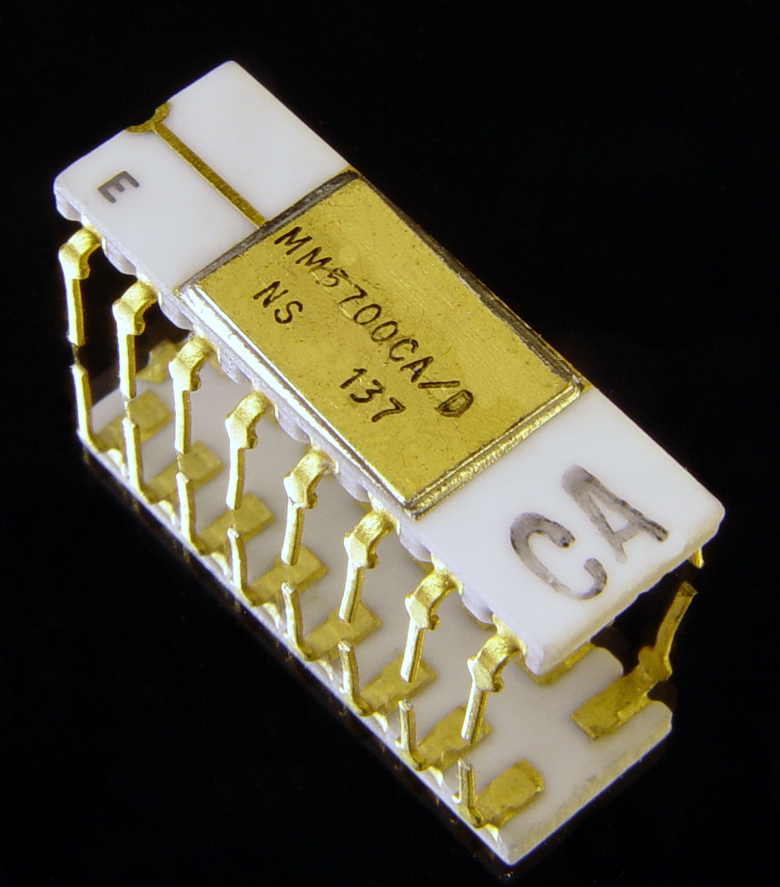 The National MAPS (Microprogrammable Arithmetic Processor System) or National MM570X was a bit-serial 4-bit microcontroller system made of 5 discrete chips designed by National Semiconductor. The chipset was marketed as a general purpose serial data microcomputer system. The chipset was introduced in late 1971.